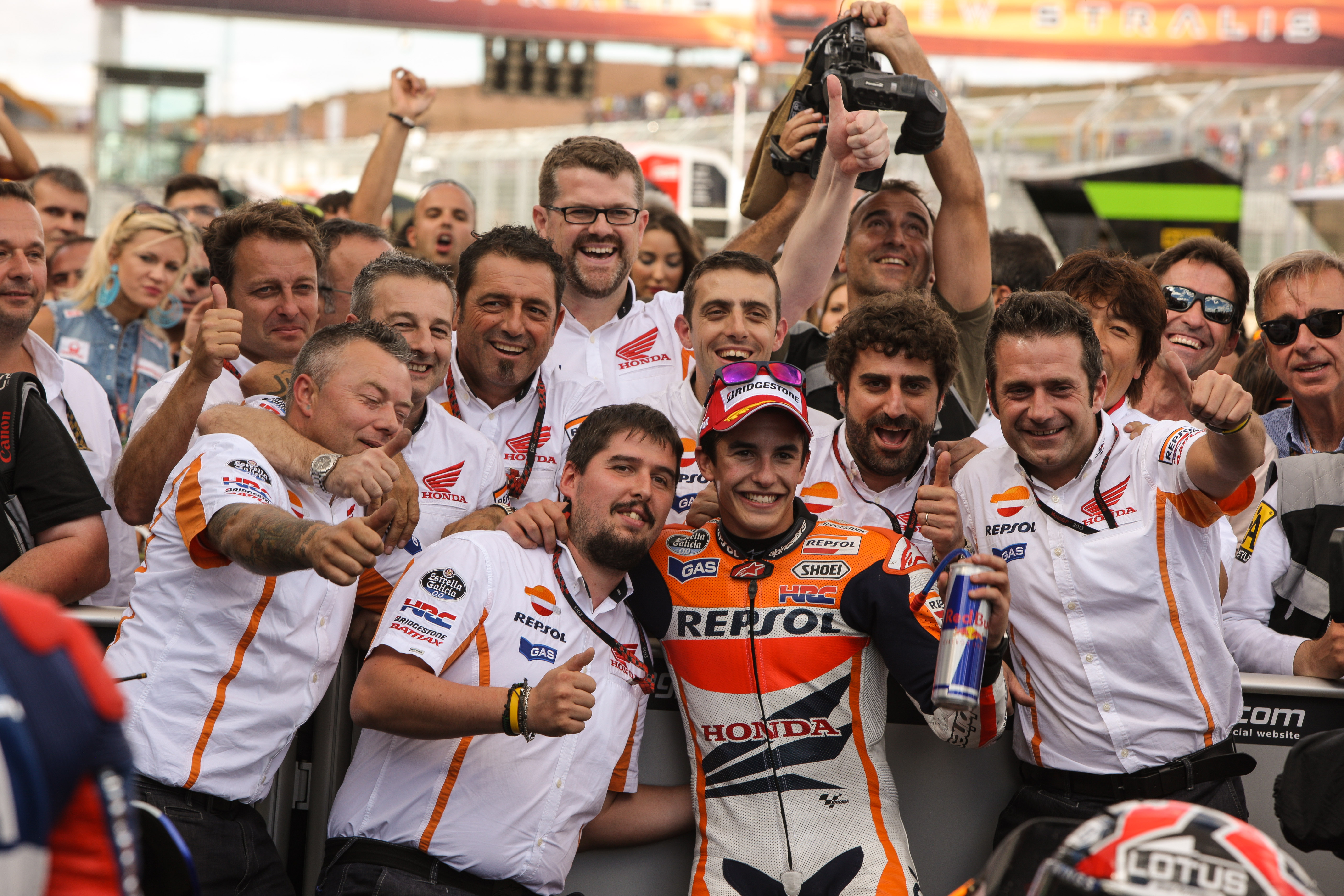 Marc Márquez, celebrating with the team at parc fermé after winning the 2013 Aragón Grand Prix.